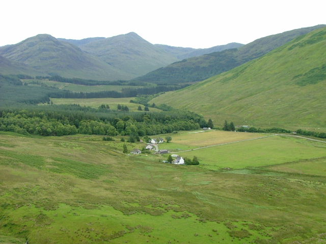 Glen More Looking towards Moyle and houses at Cnoc Fhionn.